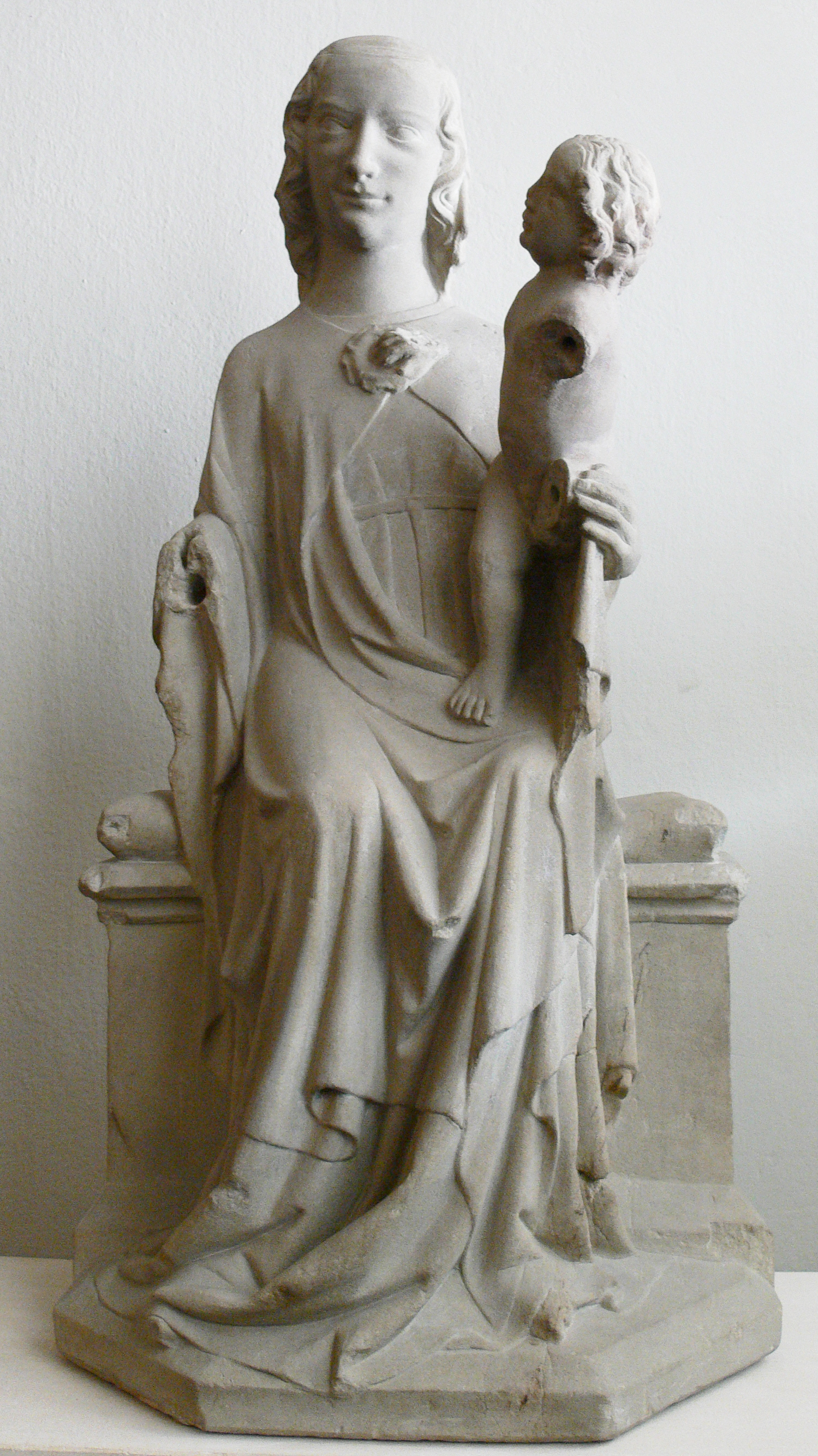 Madonna and Child, wandering artist from Southern Germany (works in Rottweil, Esslingen, Augsburg, Nurember); c. 1330; sandstone, coloring lost; from the Convent of the Poor Clare Sisters on the Anger, Munich; traditionally seen as present of Emperor Louis IV. to his daughter Agnes's convent Bayerisches Nationalmuseum München, Inv. Nr. MA 962; erworben 1855